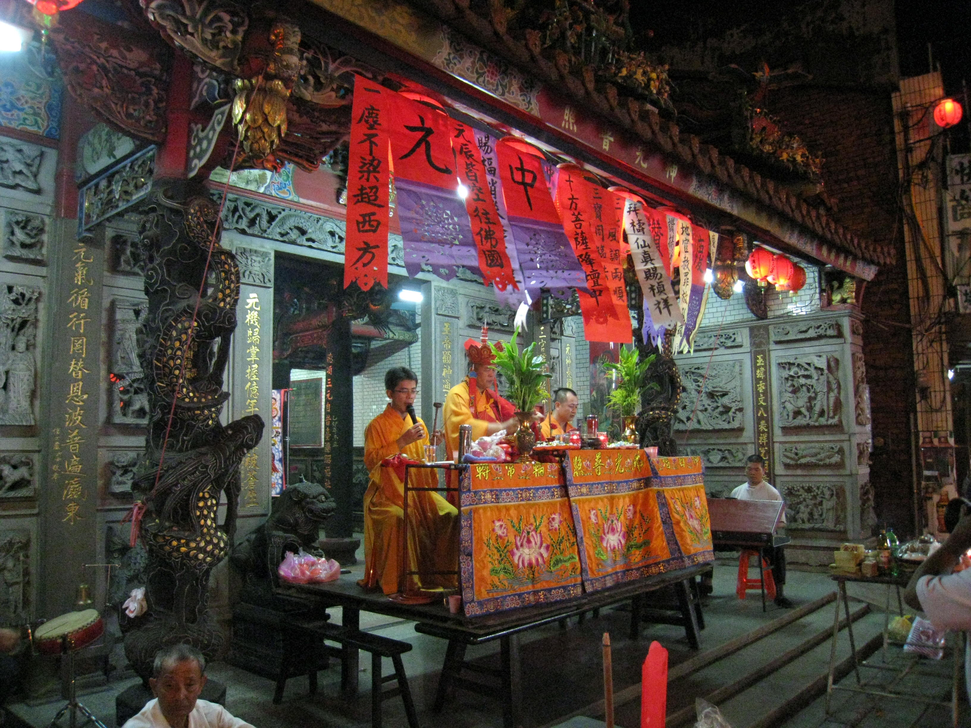 Ghost Festival Ritual（Taoyuan）Ⅲ